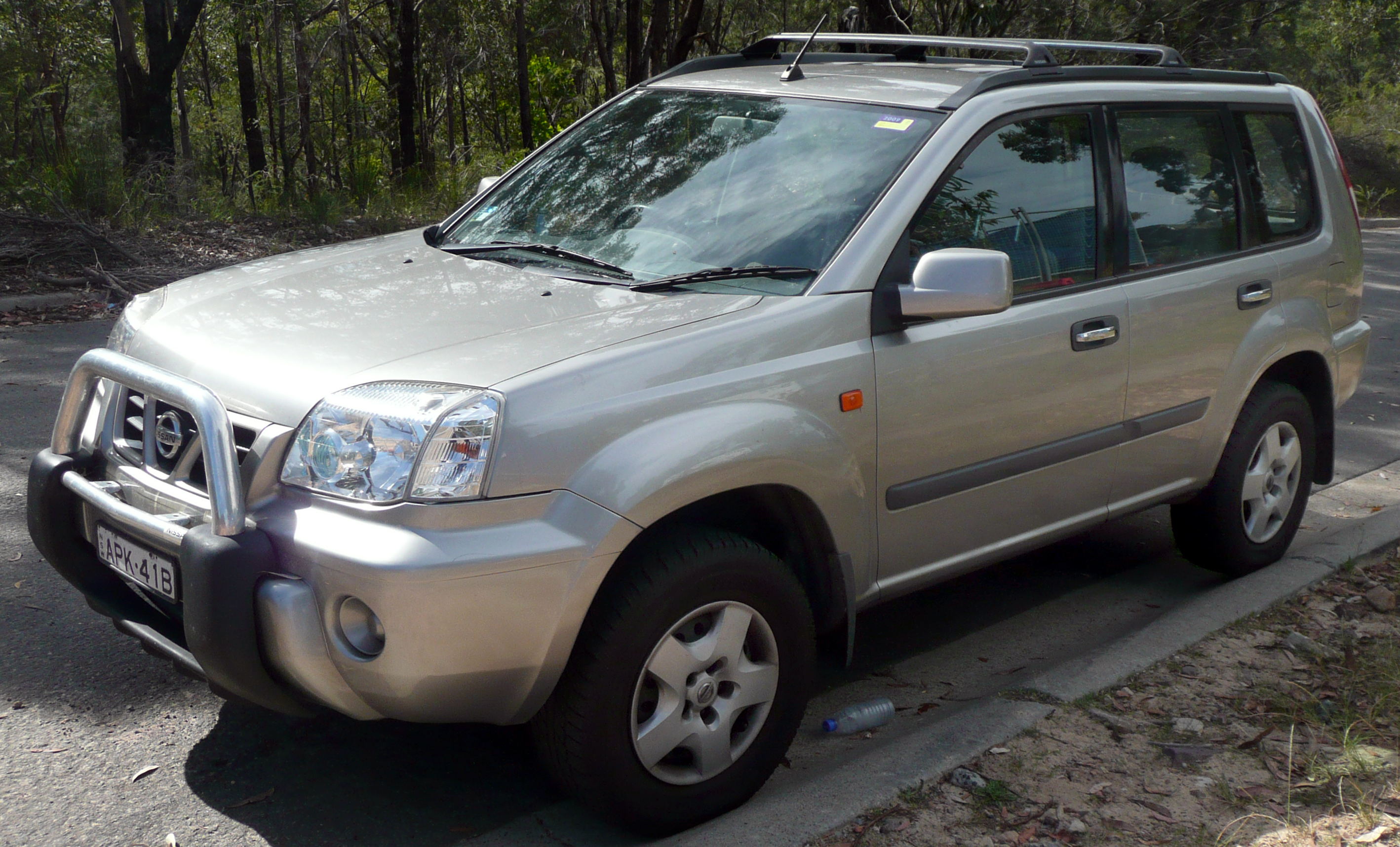 2003 Nissan X-Trail (T30) ST wagon. Photographed in New South Wales, Australia.